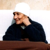 Portrait of Malek Jân Ne'mati